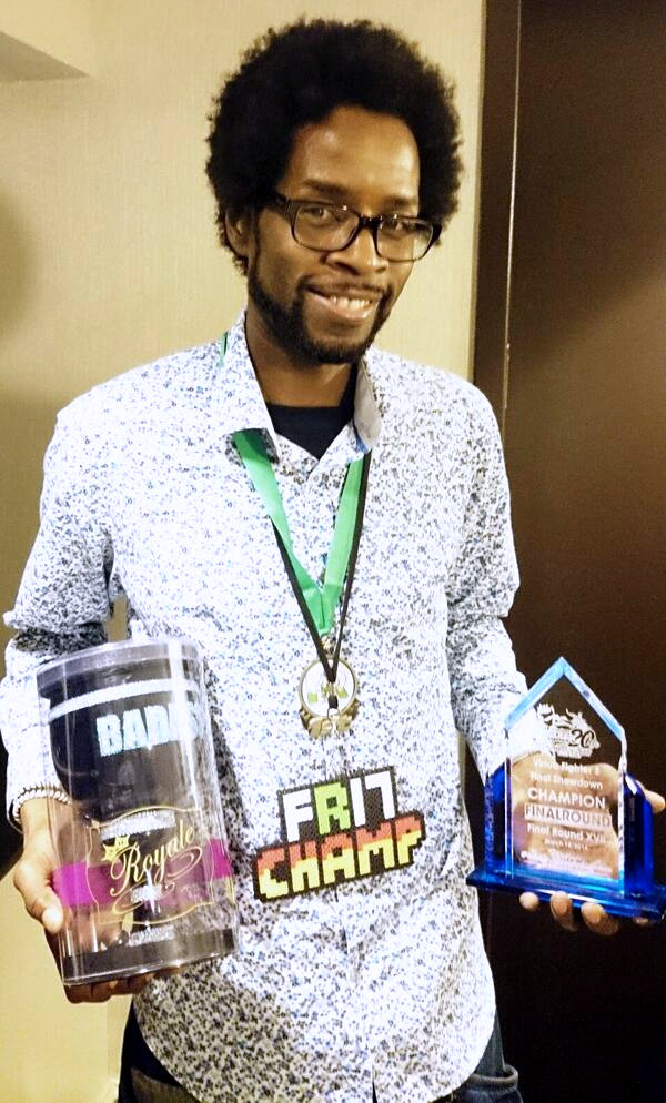 This is the photo just after Ryan Hart won the Final Round 17 Premier Event in Atlanta and also the Virtua Fighter V 20th Anniversary Tournament